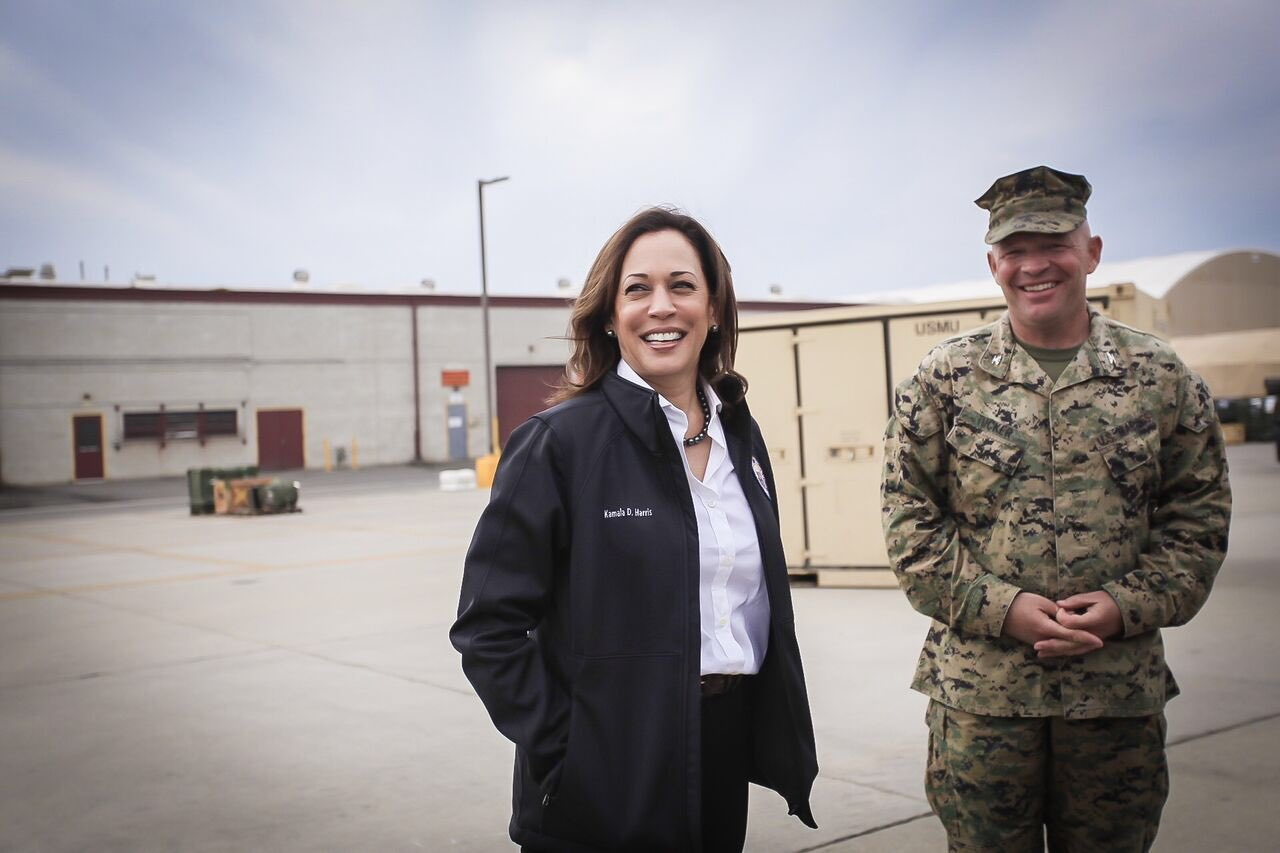 Great to be at Camp Pendleton before Thanksgiving to thank our Marines and their families for all they sacrifice. What I saw today are incredibly dedicated Americans who are serving our country, doing extraordinary work.